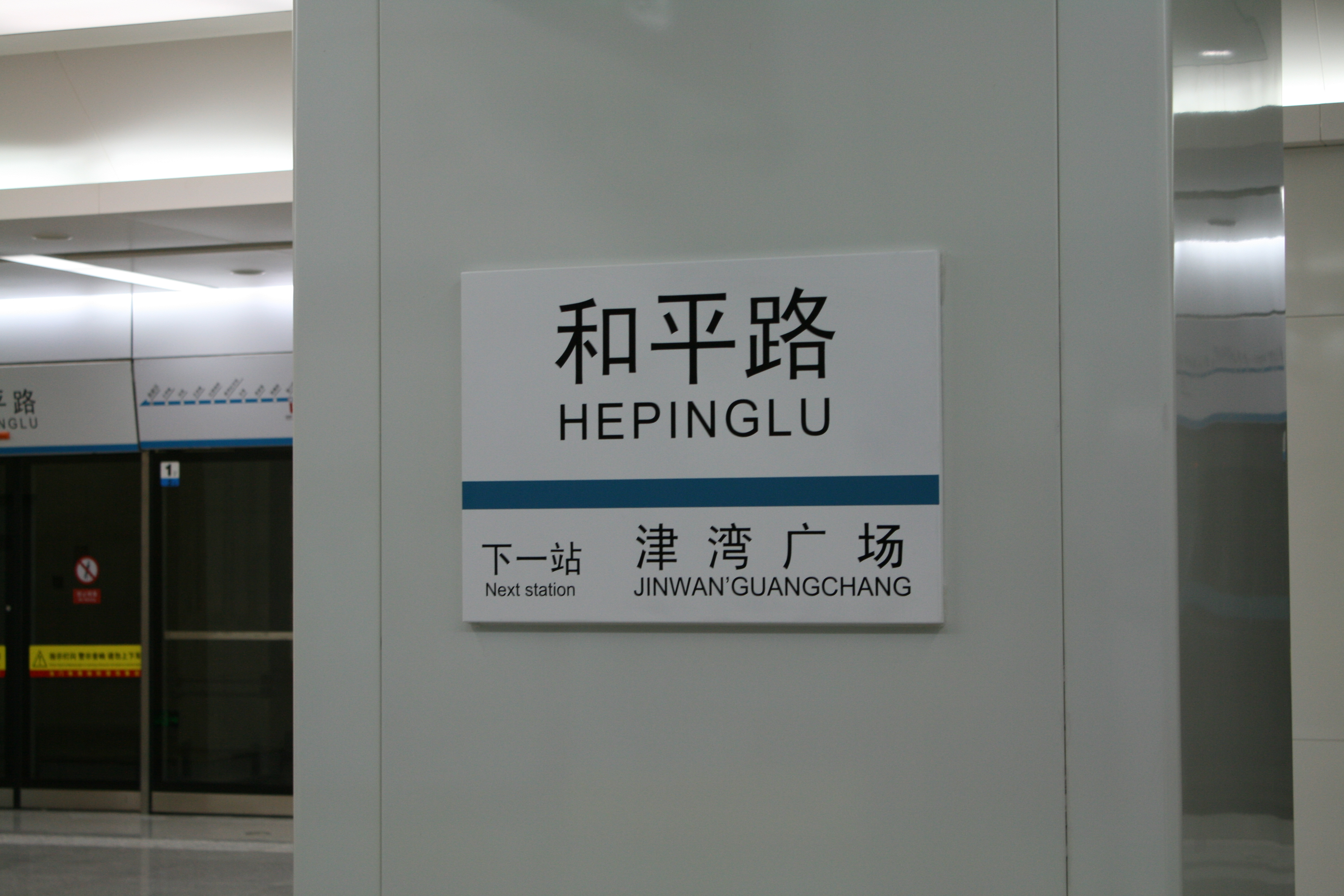 tianjin metro line 3 the HEPINGLU Station ...0001